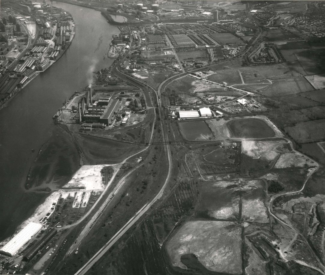 Dunston Power Station, dominates the centre left of the photograph with Vickers Engineering Works across the Tyne. The Newcastle to Carlisle railway line bisects the image and you can pick out an engine on the line almost in the centre of the shot. Work on the Metro Centre began in 1984 on the large area derelict land on the left. The famous Dunston ‘Rocket’ flats can be seen on the horizon. Reference: TWAS: DT.TUR.7.38 (Copyright) We're happy for you to share this digital image within the spirit of The Commons. Please cite 'Tyne & Wear Archives & Museums' when reusing. Certain restrictions on high quality reproductions and commercial use of the original physical version apply though; if you're unsure please . To purchase a hi-res copy please quoting the title and reference number